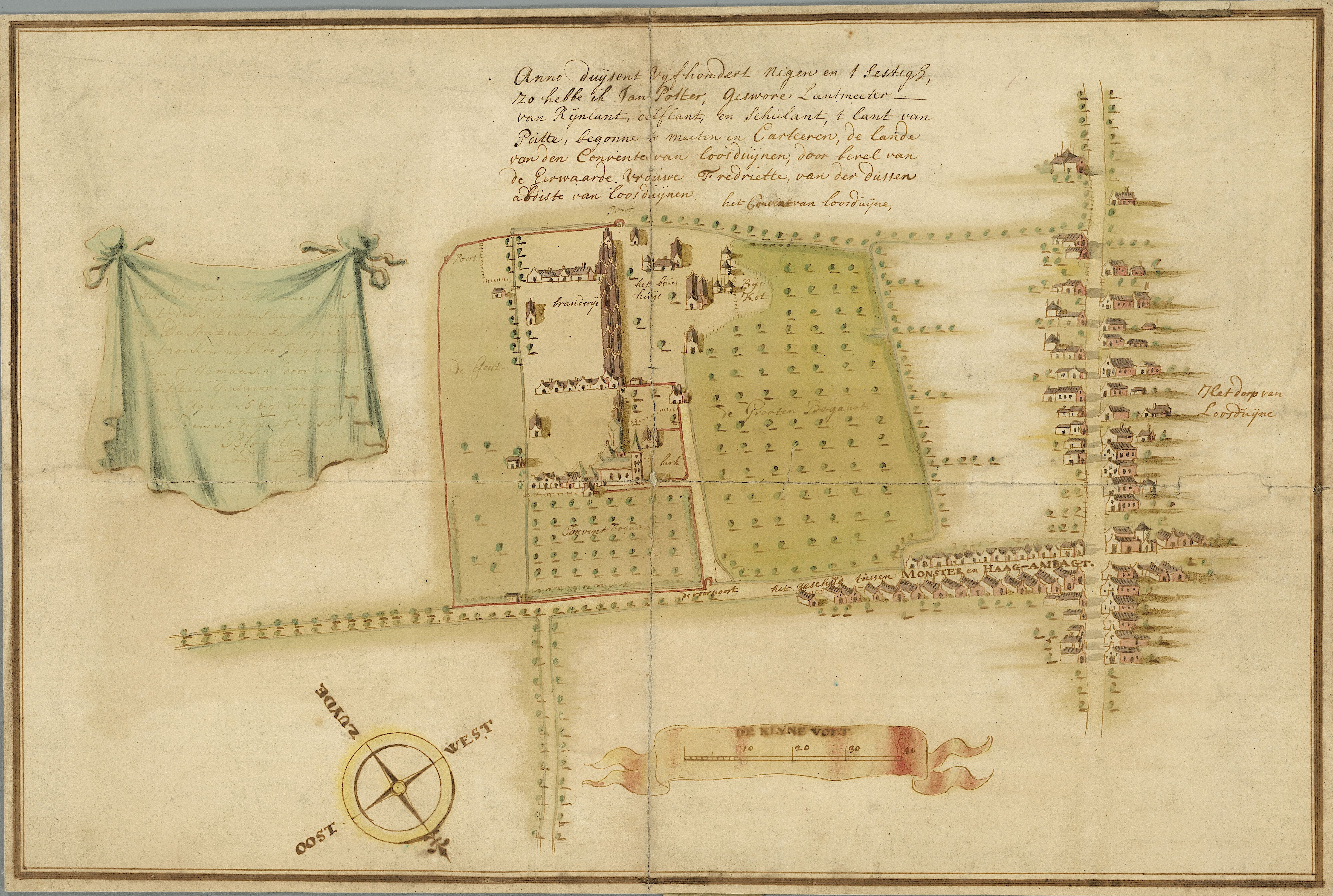 Map of the village of Loosduinen and the convent of Loosduinen, near The Hague, situation of the second half of the sixteenth century. Copy of a map from the sixteenth century.